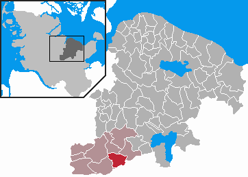 This map shows the area of the Gemeinde (municipality) Ruhwinkel in the Kreis (district) Plön, Schleswig-Holstein, Germany.